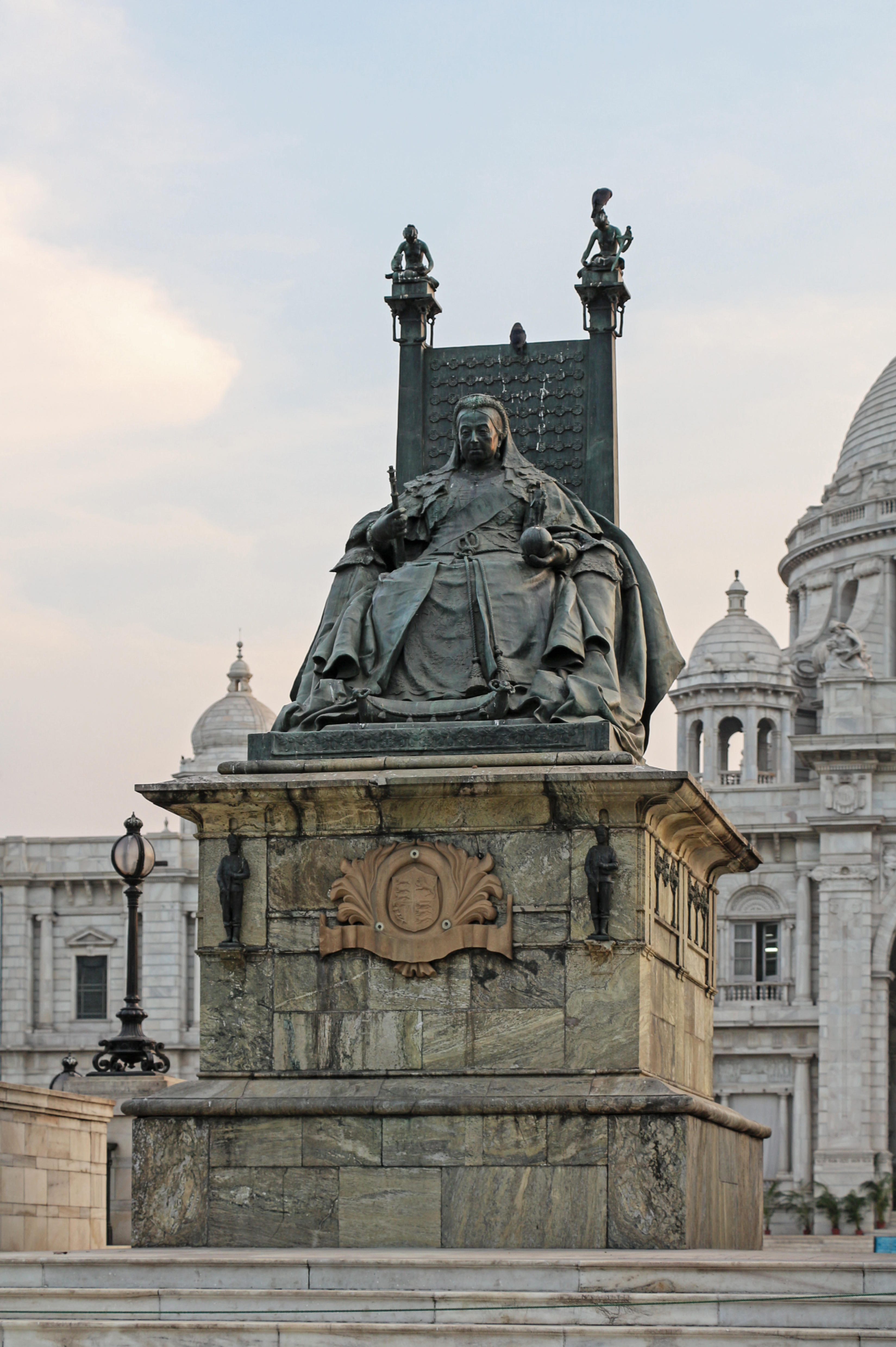 Statue of Victoria at Victoria Memorial, Kolkata, India